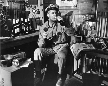 Cary Grant taken for film Father Goose (1964). See also film still. No copyright notice.